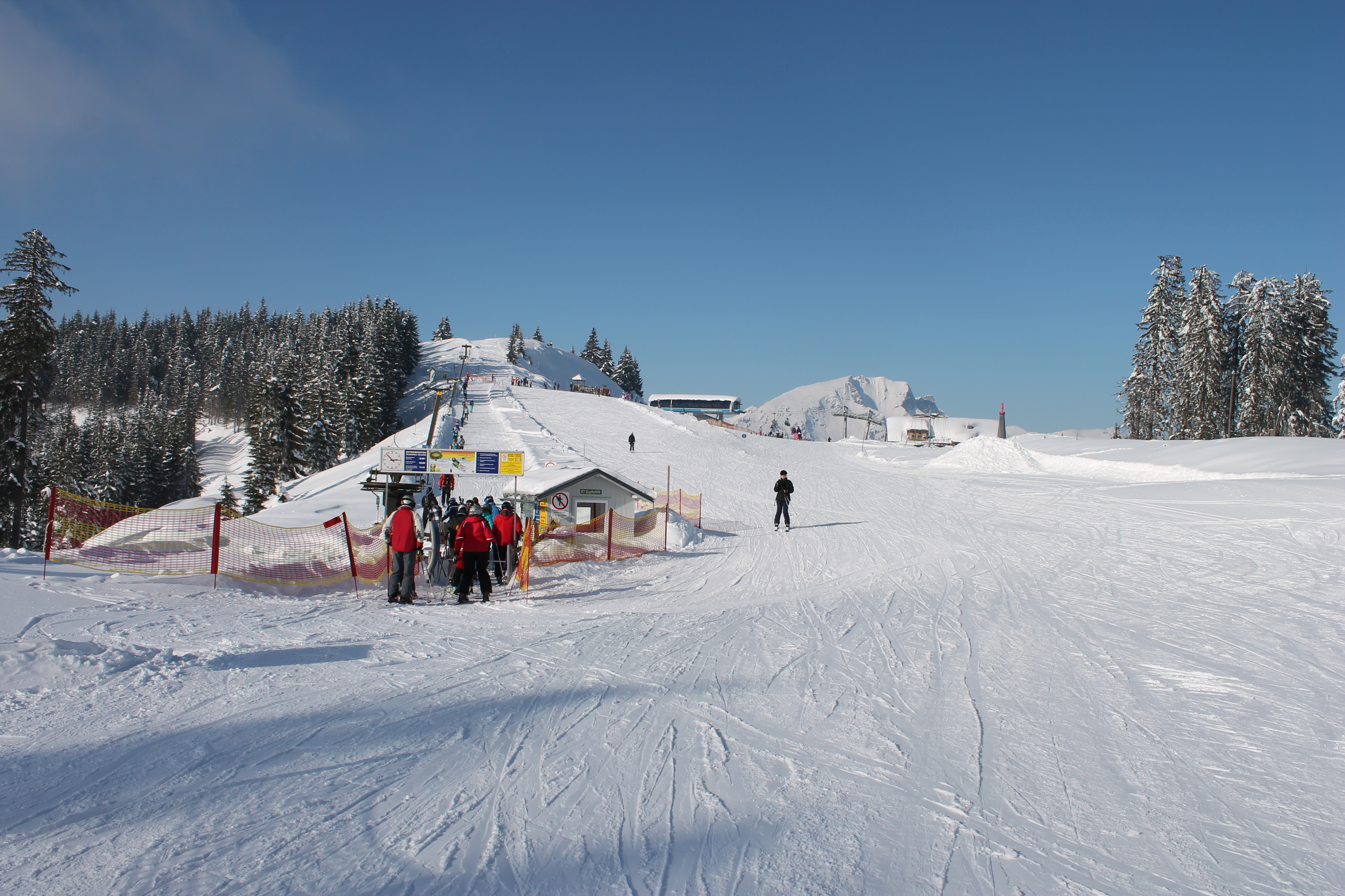 Ski lift Gipfellift beneath the peak of Hornspitz, ski resort Dachstein West, borders of Upper Austria and Salzburg